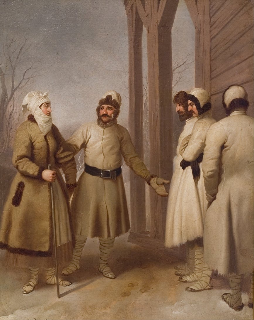 Lithuanian peasants by Franciszek Smuglewicz. The painting depicts peasants in Belarusian clothes.